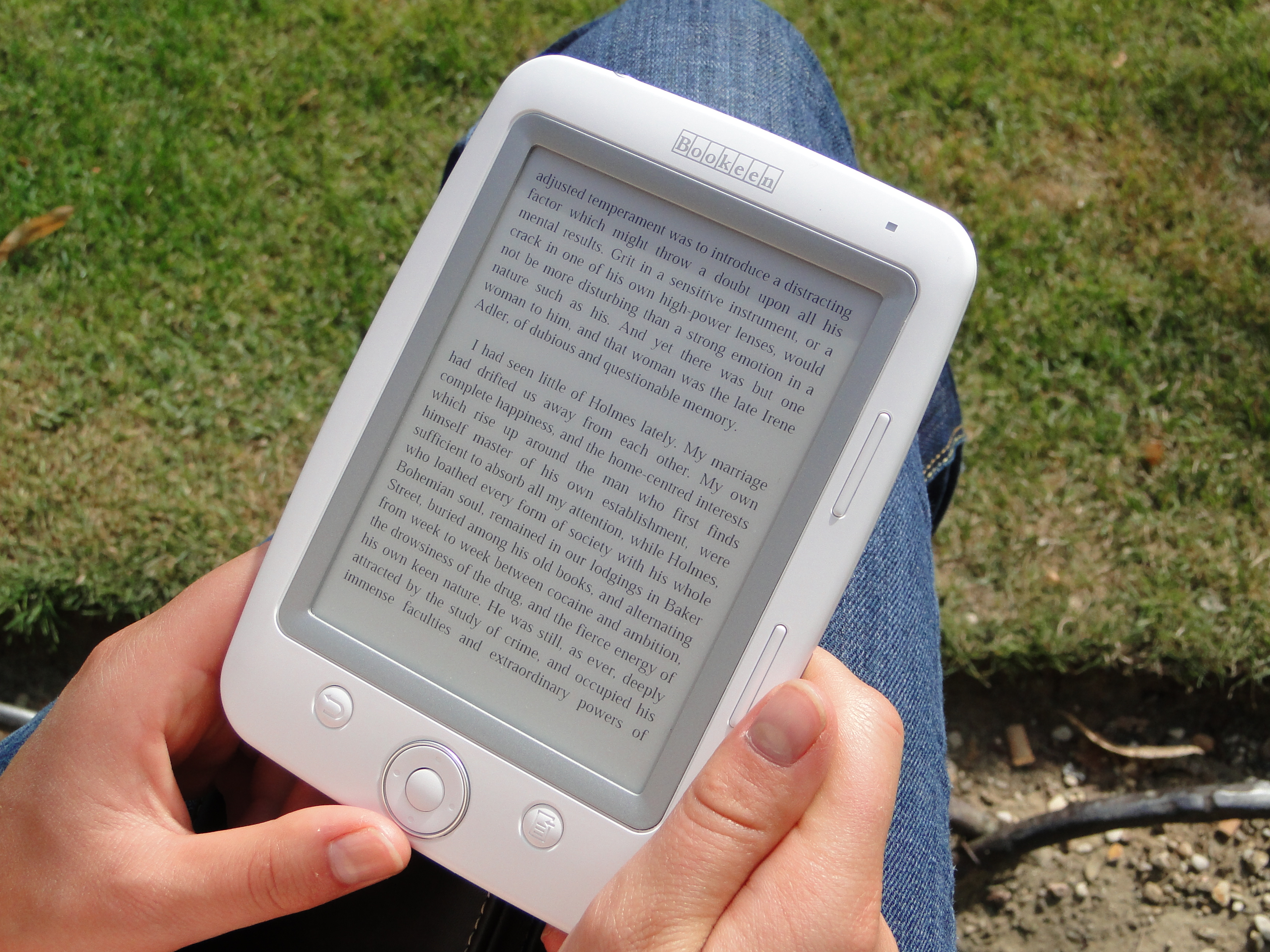 The e-book reader Cybook Opus by Bookeen with electronic paper. This pocket sized reader can be held in one hand.